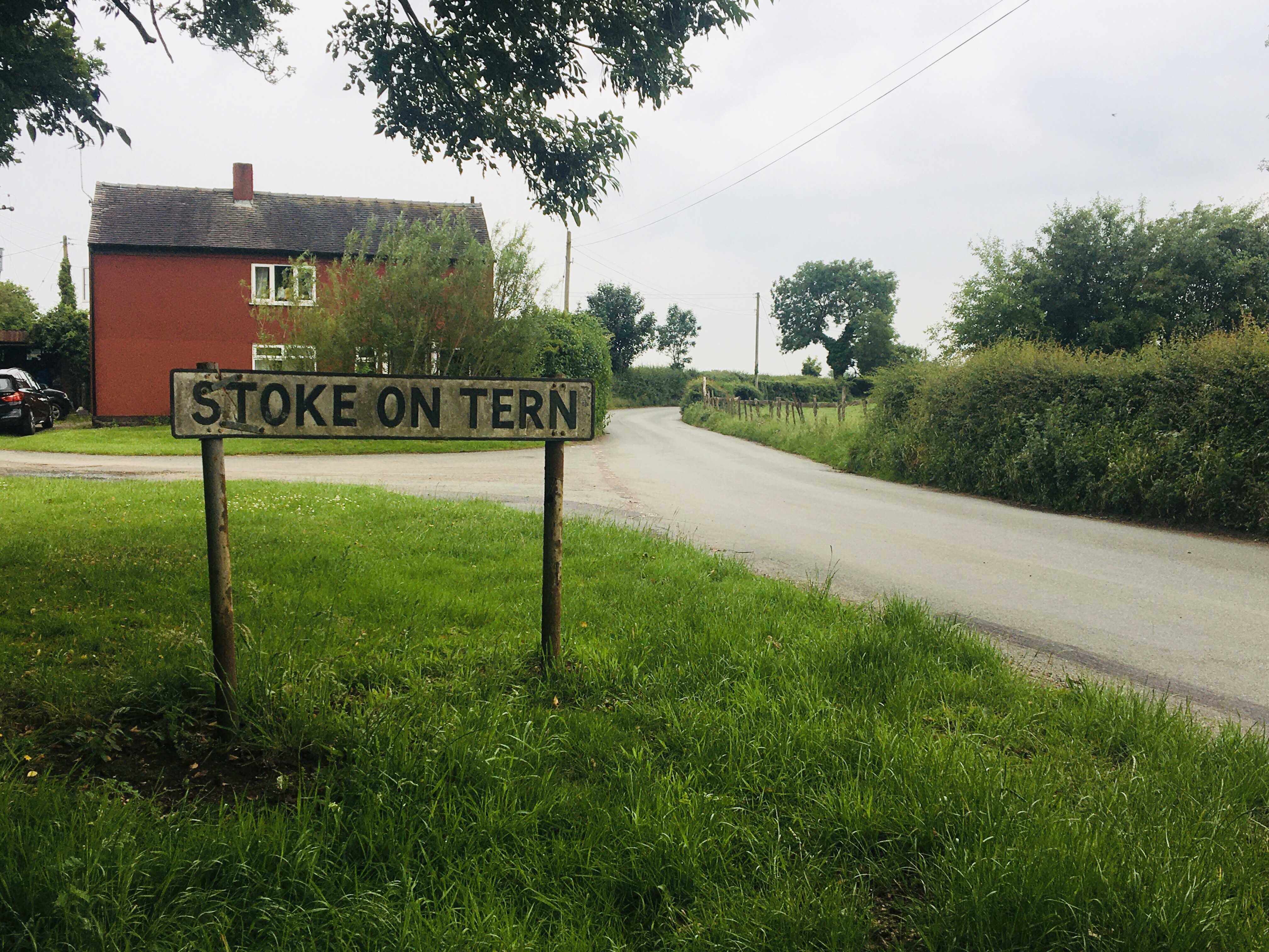 A Stoke on Tern road sign